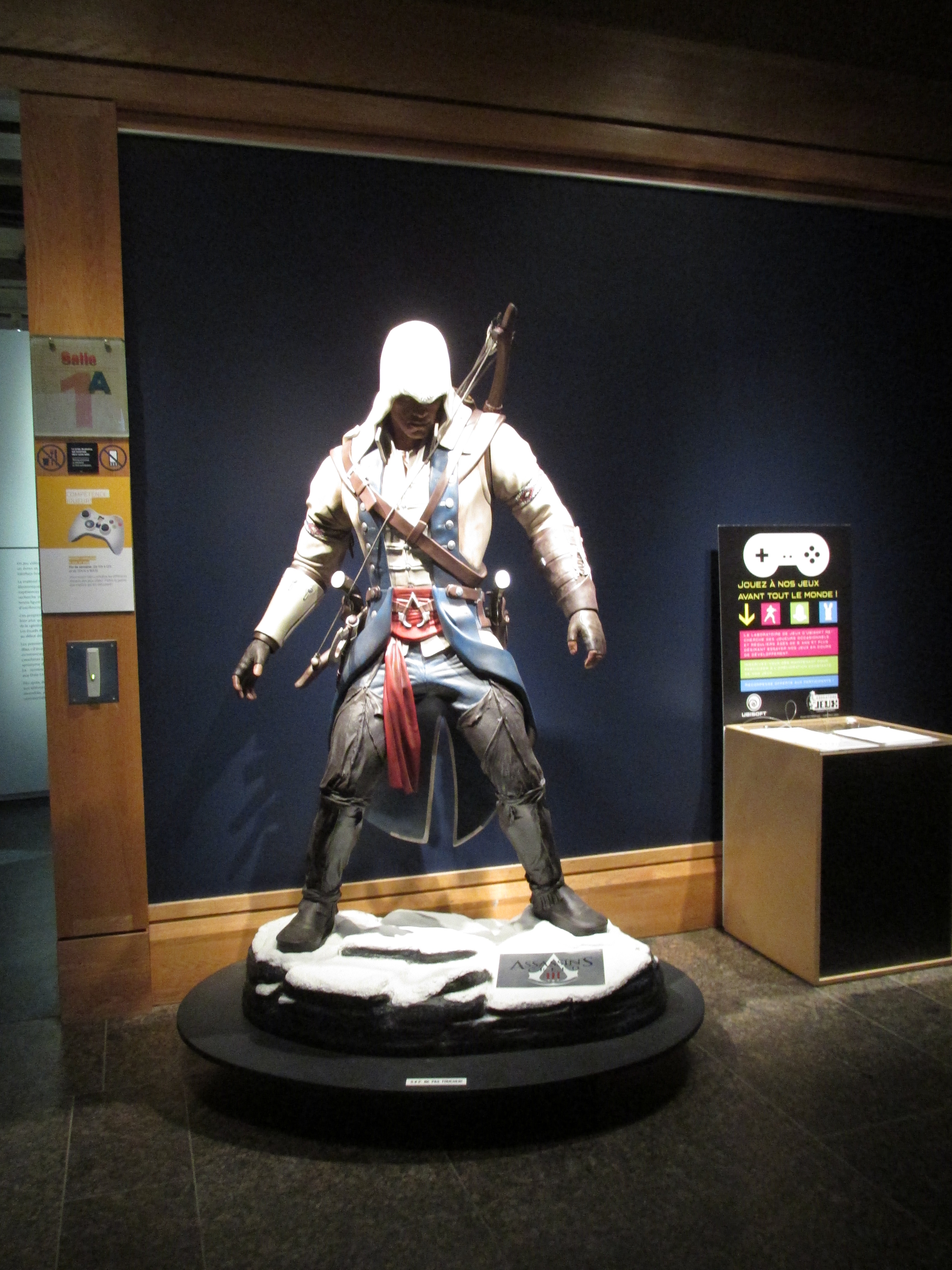 Statue (probably life-sized, or larger) of the character Connor/Ratonhnhaké:ton from the video game Assassin's Creed III at the Musée de la civilisation in Quebec City, Canada, at a video game exhibition presented by Ubisoft.